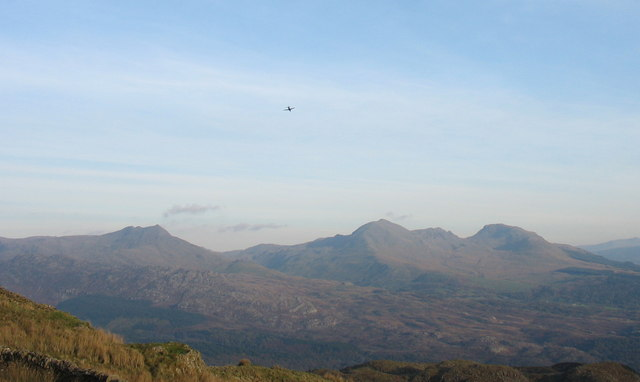 An RAF aircraft heading towards the Moelwynion.